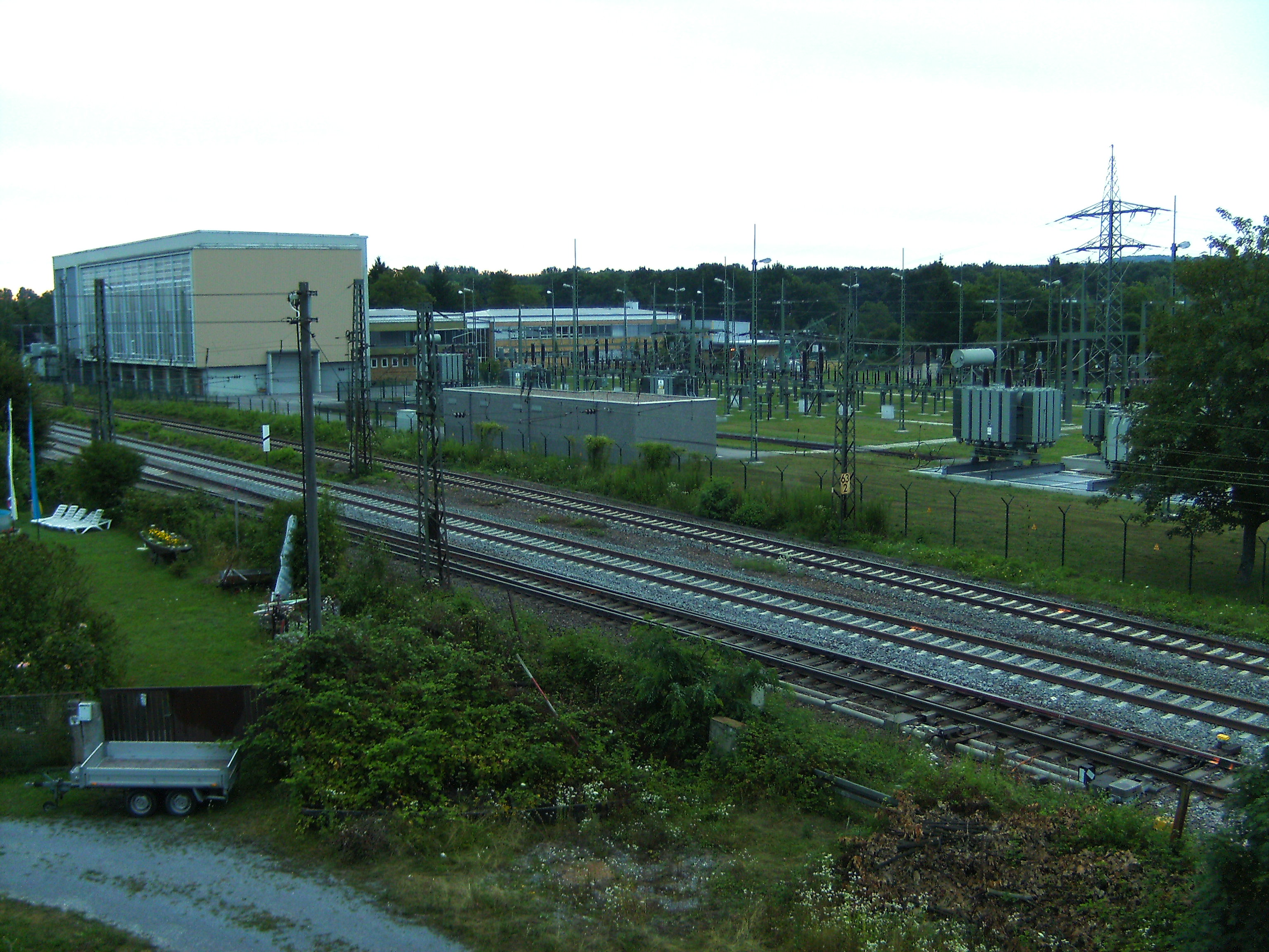 Karlsruhe Traction Current Converter Plant